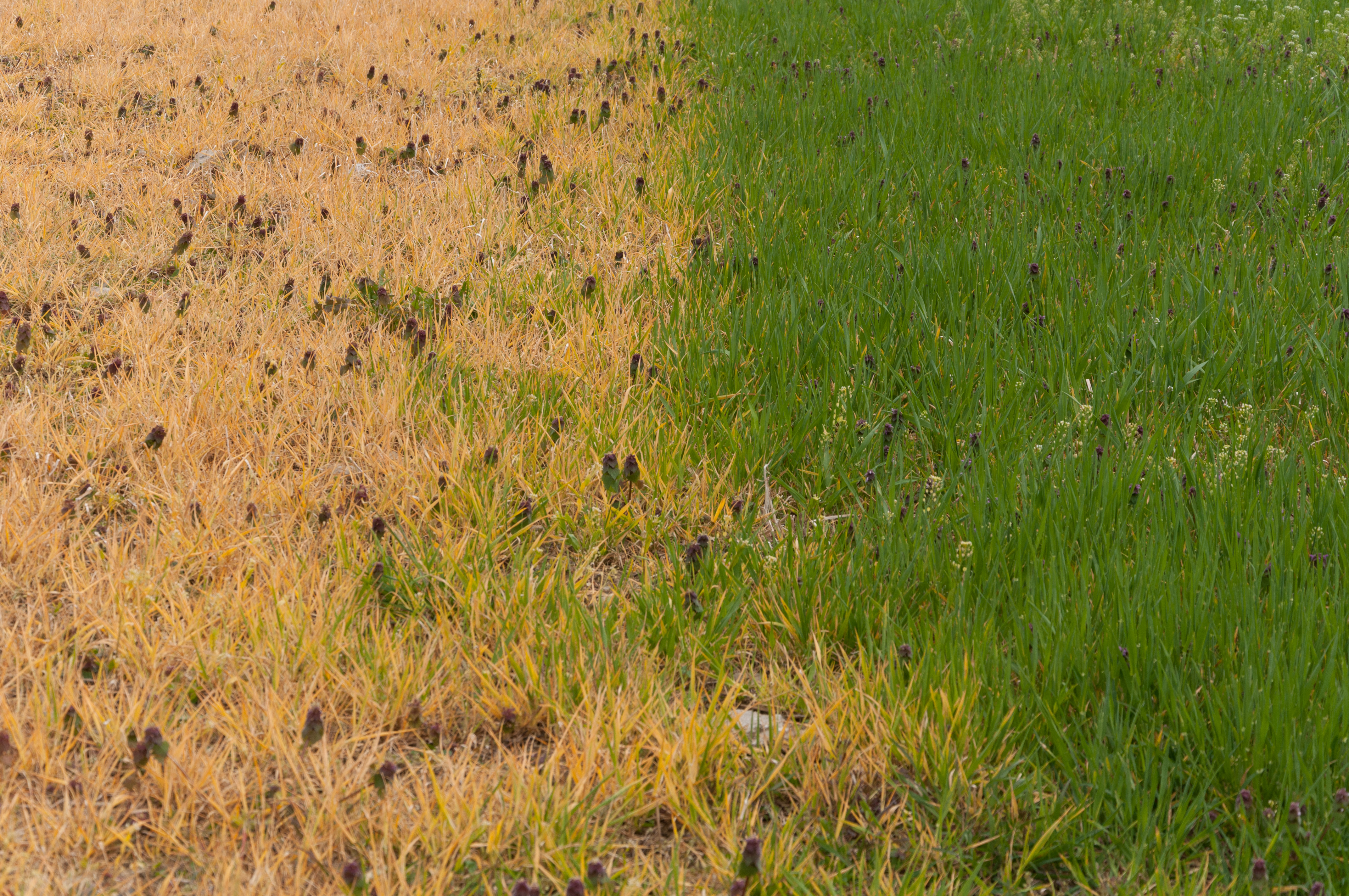 Field sprayed with herbicide.